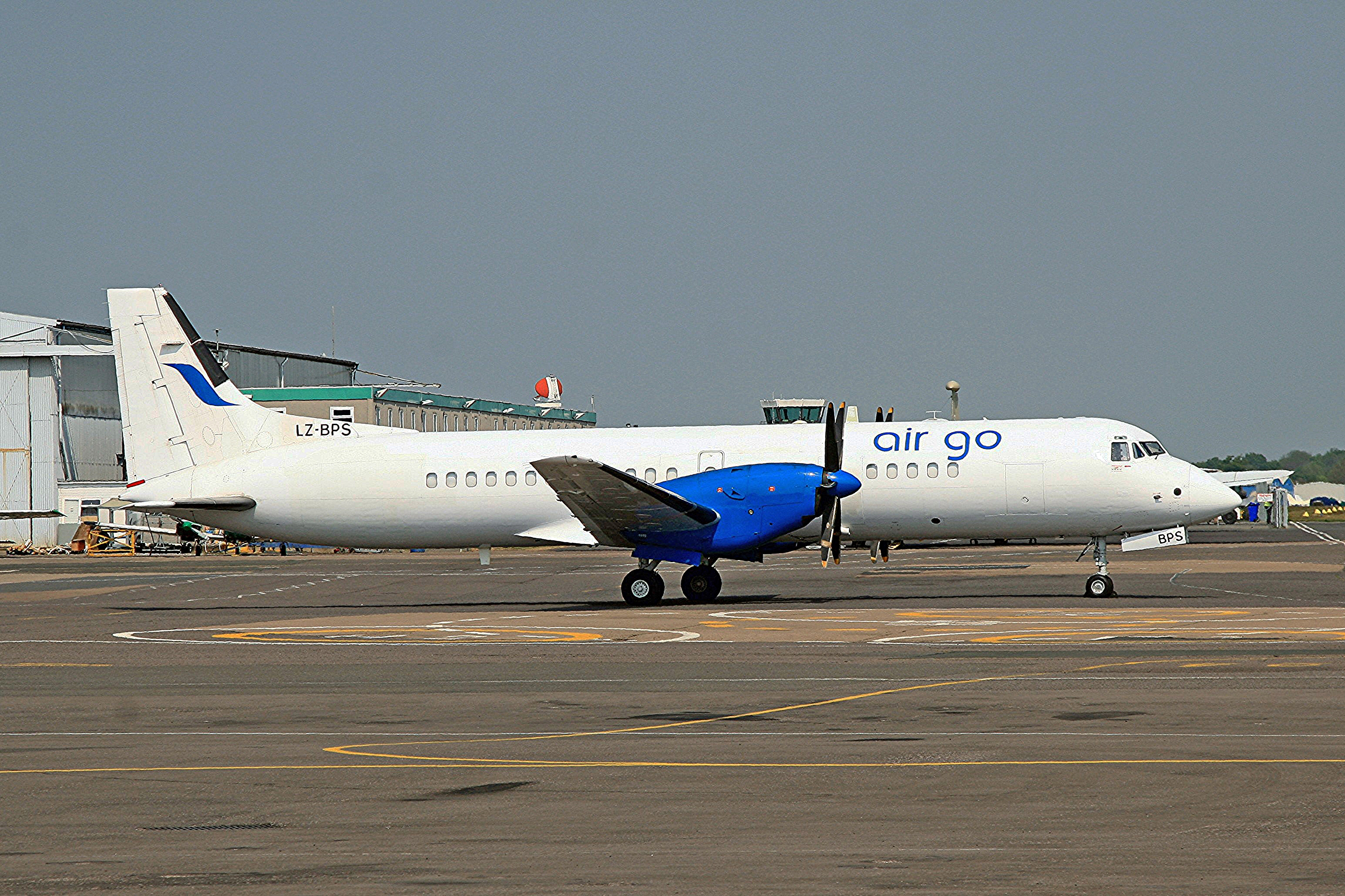 LZ-BPS Bae ATP Airgo Coventry 30-04-2011